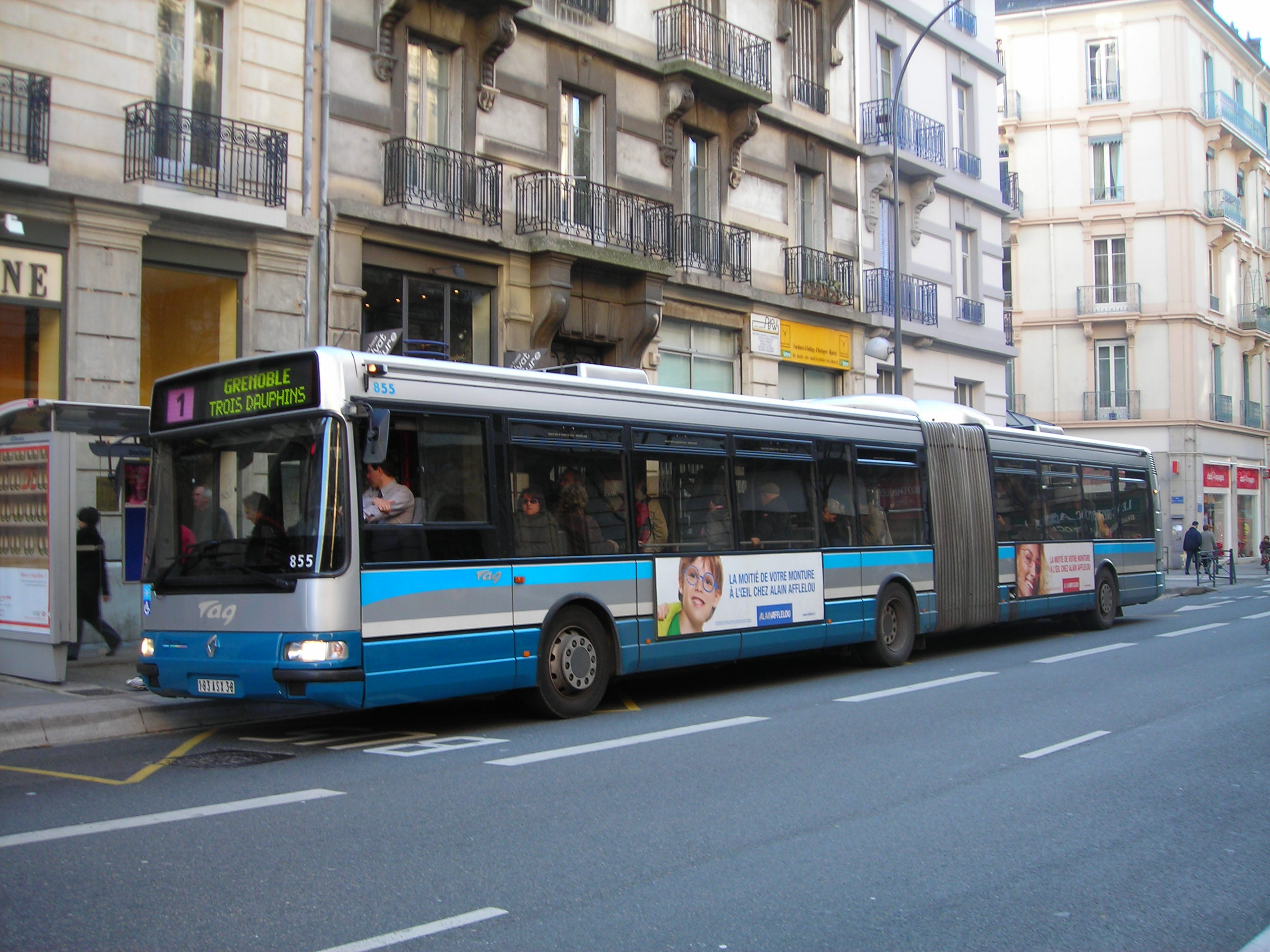 Renault Agora L Grenoble bus on line 1 at stop "Docteur Mazet"